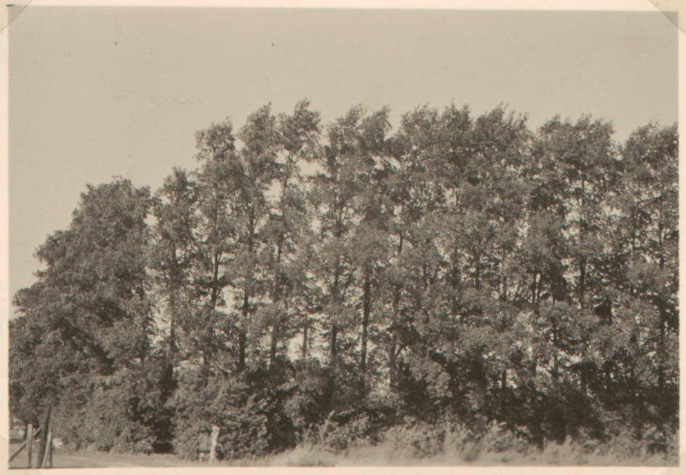 Ulmus minor, Abbekinderen, Netherlands